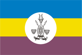 Busoga, common flag